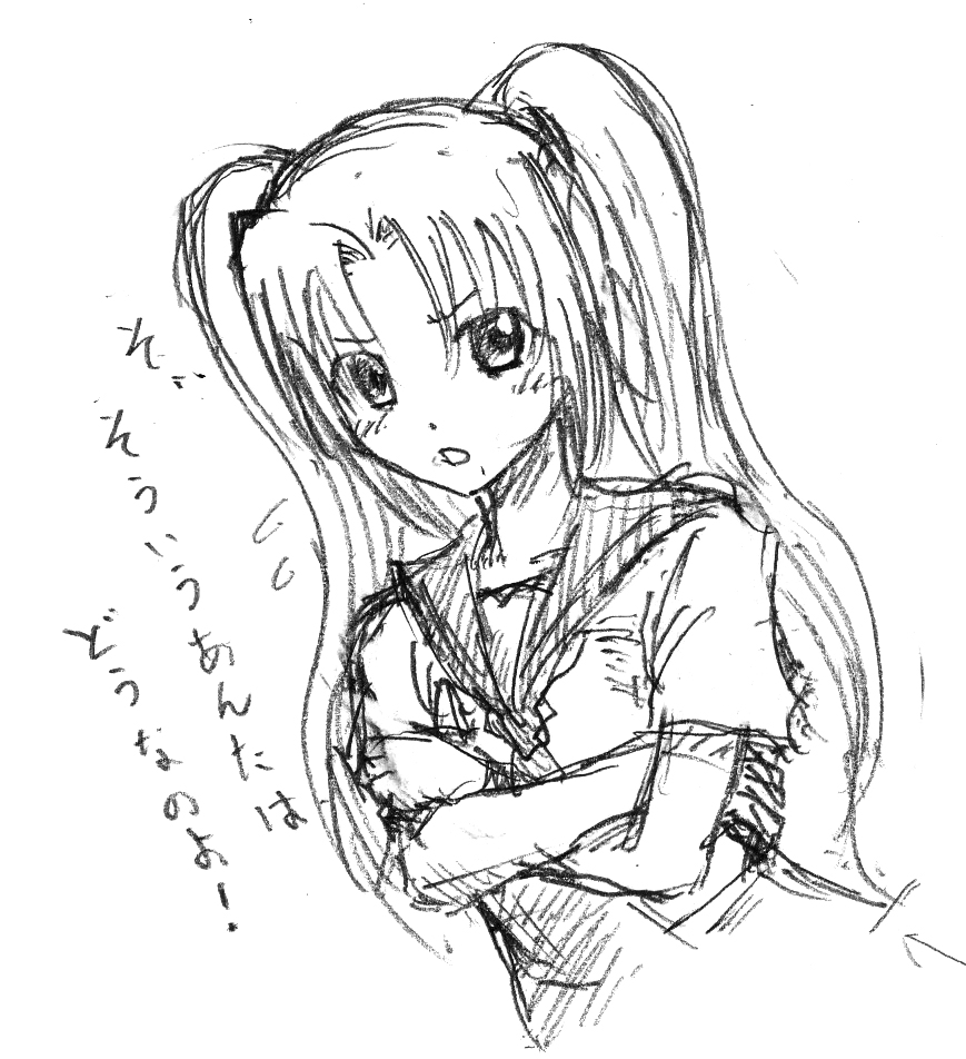 A typical example of tsundere characters